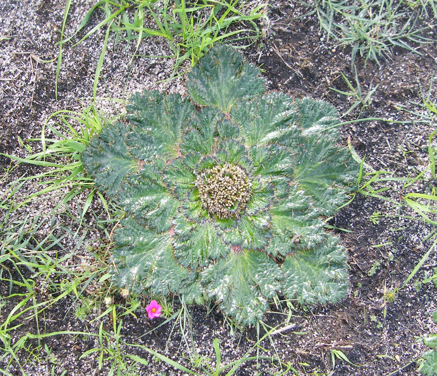 Arctopus echinatus female